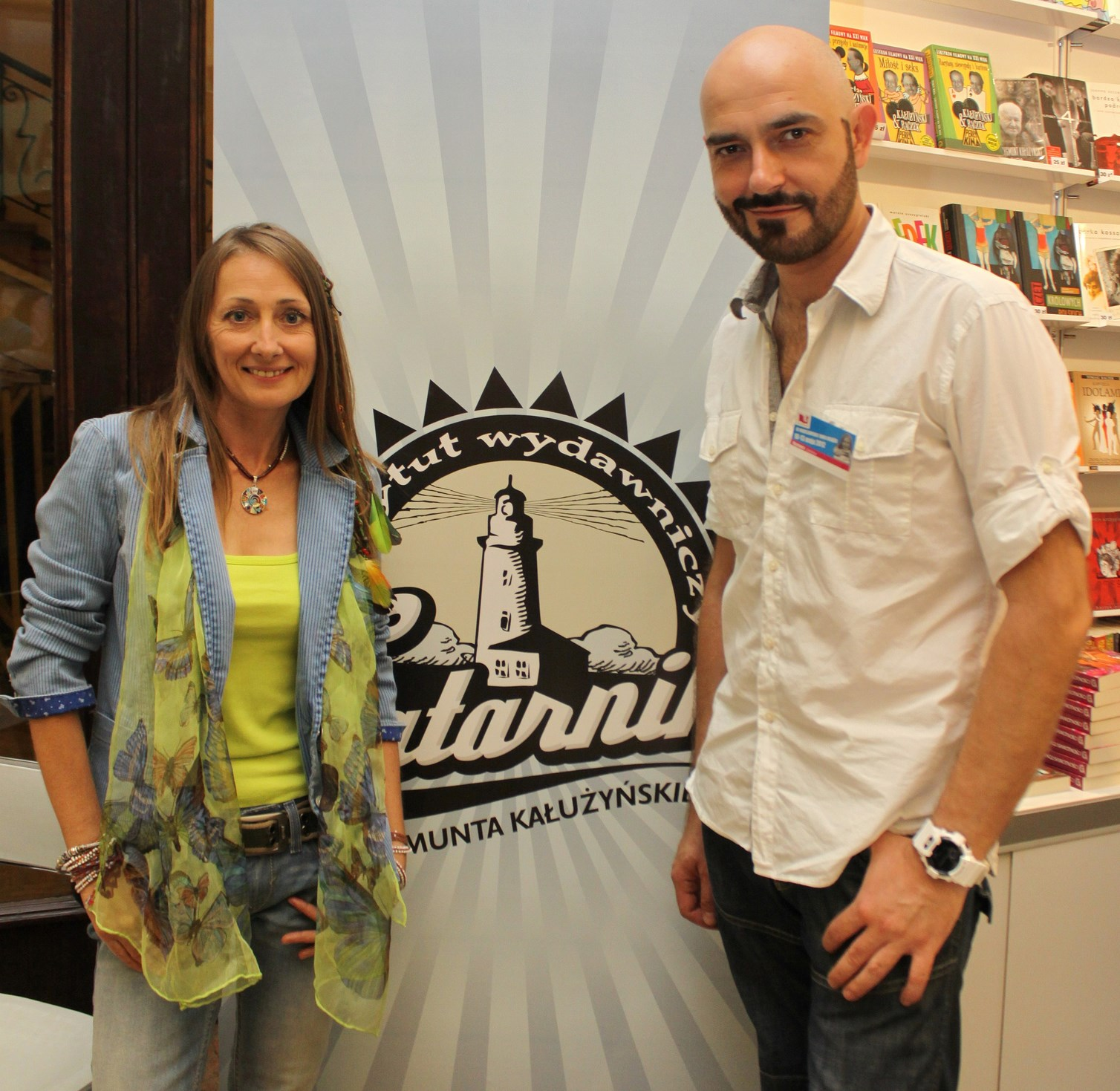 Beata Pawlikowska & Marcin Szczygielski during promo meeting of Latarnik.